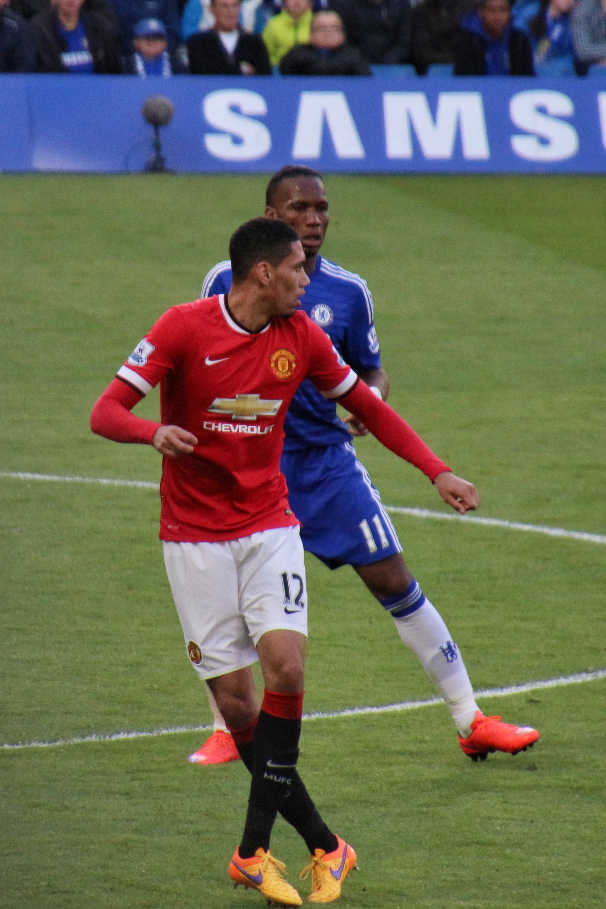 Chelsea 1 Man Utd 0